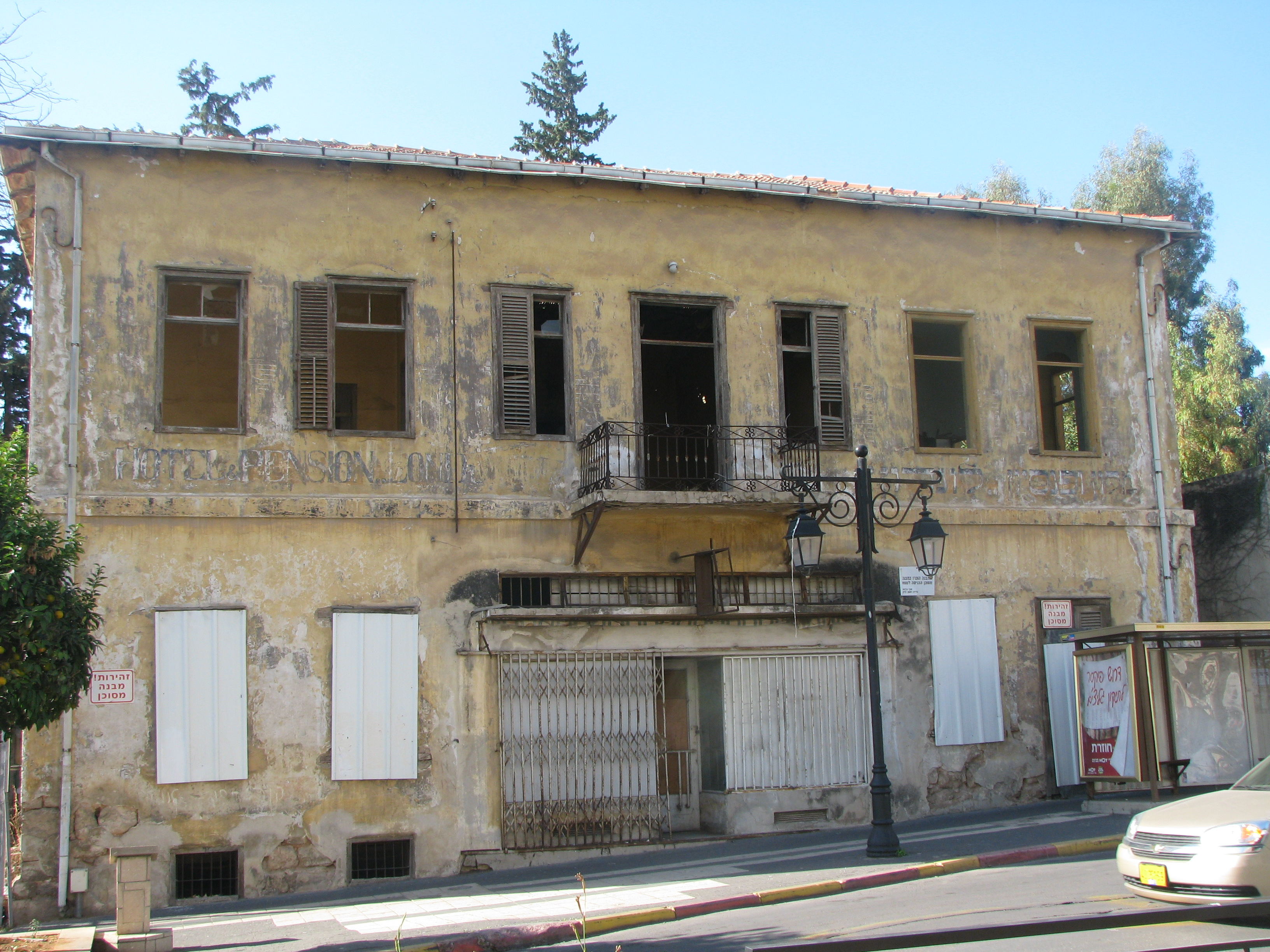 Architecture of Israel